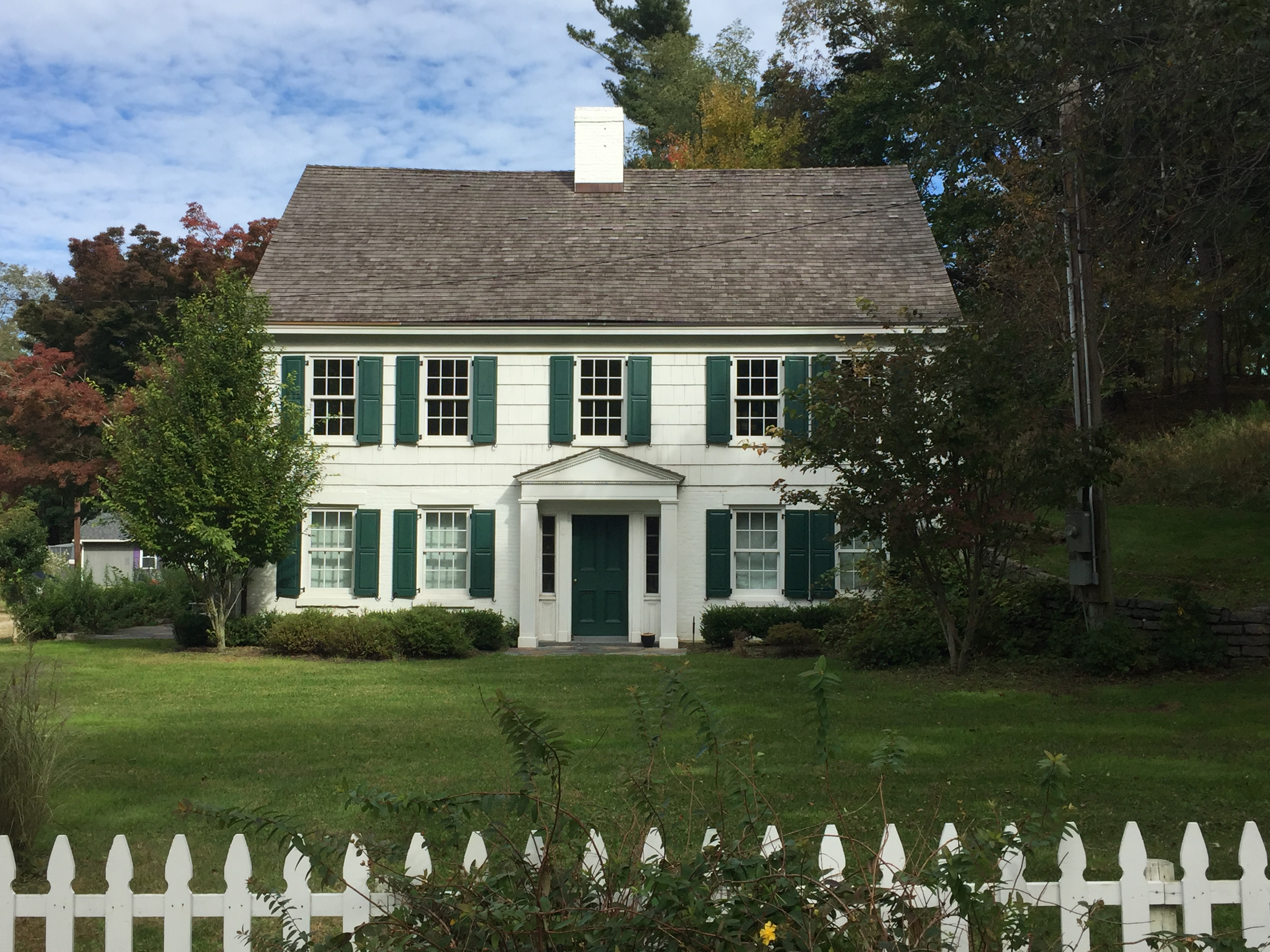 The Josiah Woodhull House is on the National Register of Historic Places (#11000602). It is located in Shoreham, NY. This photo was taken in October 2018.